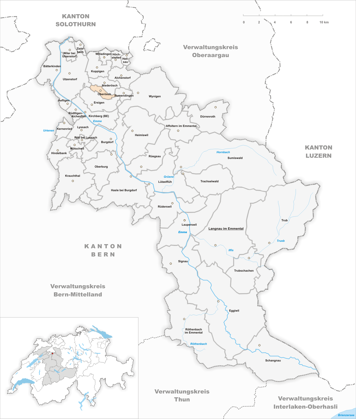 Municipality Oberösch